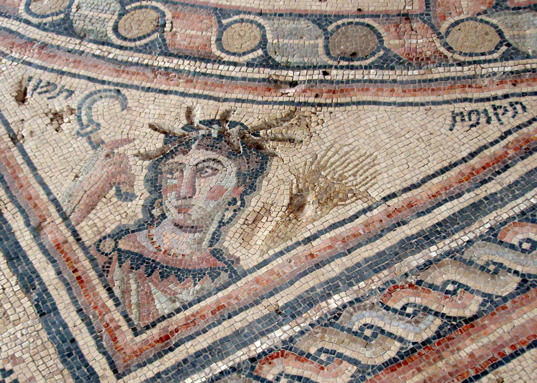 Synagogue in Hamat Tiberias, Israel. תקופת תמוז (summer).